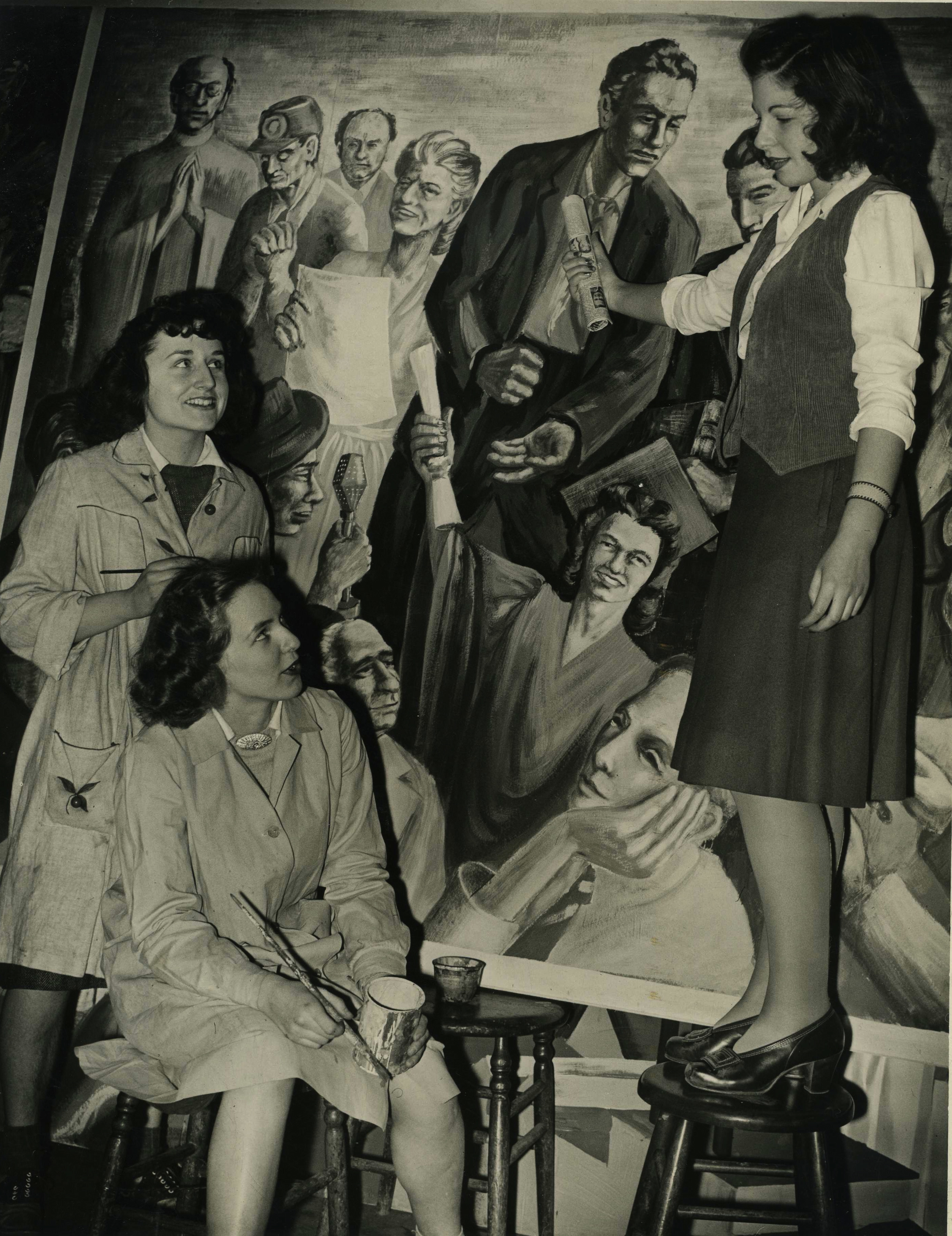 Golahny standing on stool, by high school classmates with whom she painted mural of the Four Freedoms for a Detroit storefront, 1943